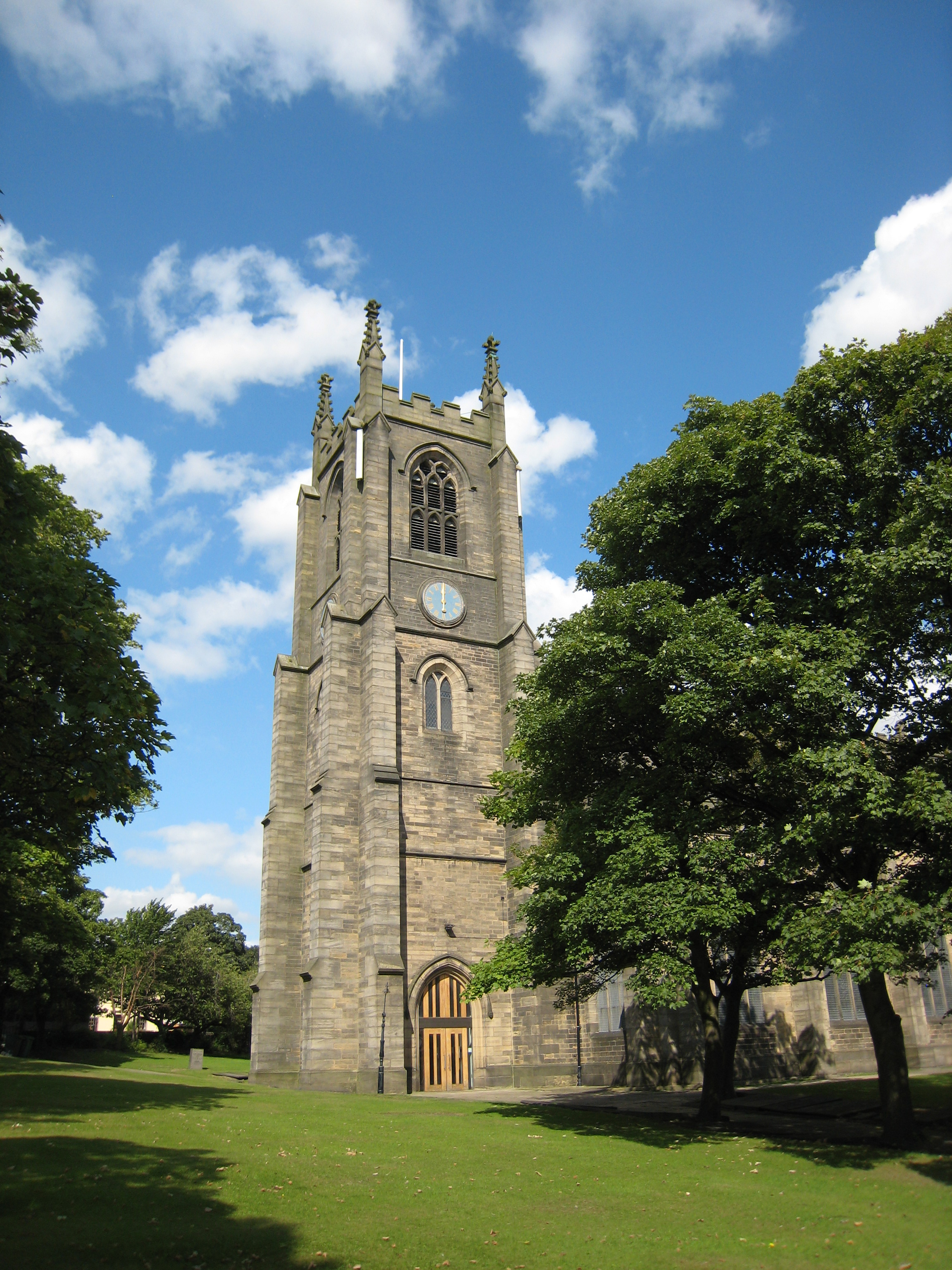 Church of St Lawrence & St Paul, Pudsey. Leeds. Church of England Parish Church. Viewed from Radcliffe Lane.